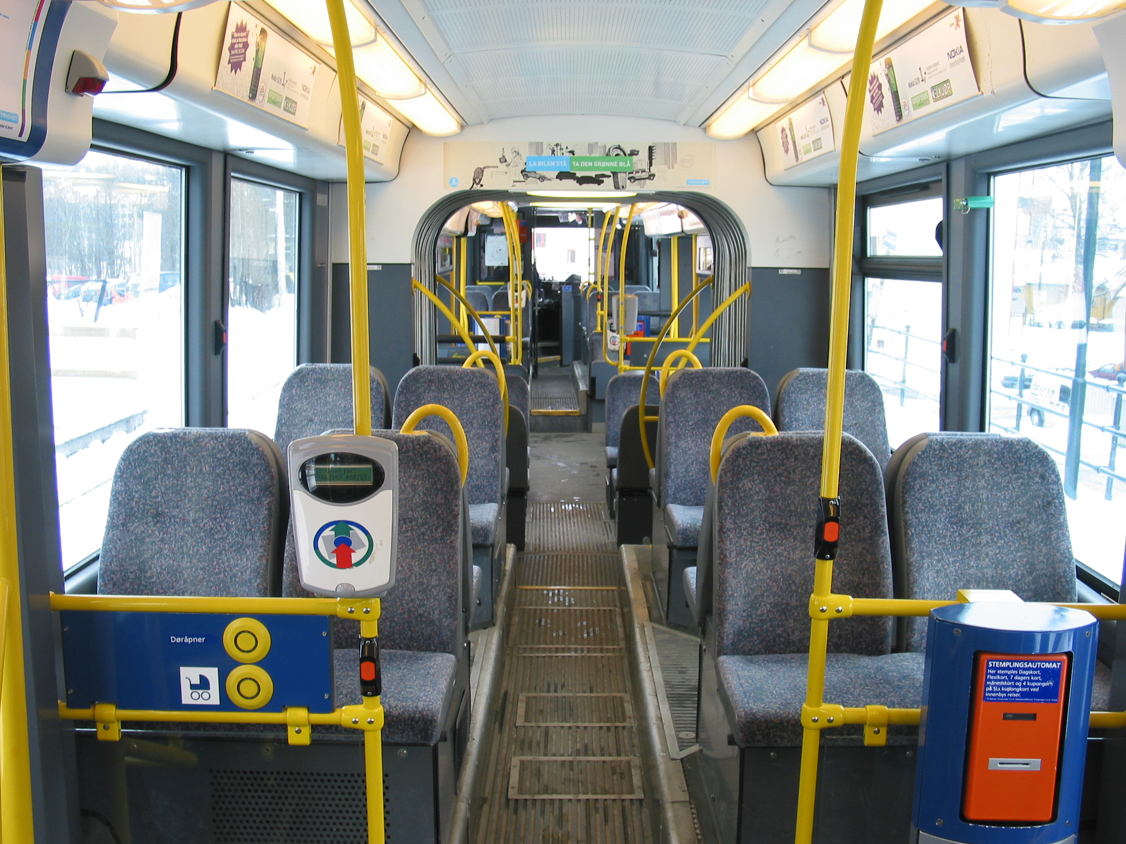 Interior of a SL95 wagon belonging to the Oslo Tramway, facing towards the driver.